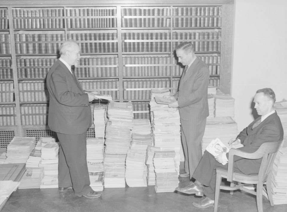 Gérard Malchelosse, Philippe Laferrière and Casimir Hébert examine periodic piles placed on the ground in front of bookshelves of Saint-Sulpice Library (now Bibliothèque et Archives nationales du Québec), Saint-Denis Street in Montreal.